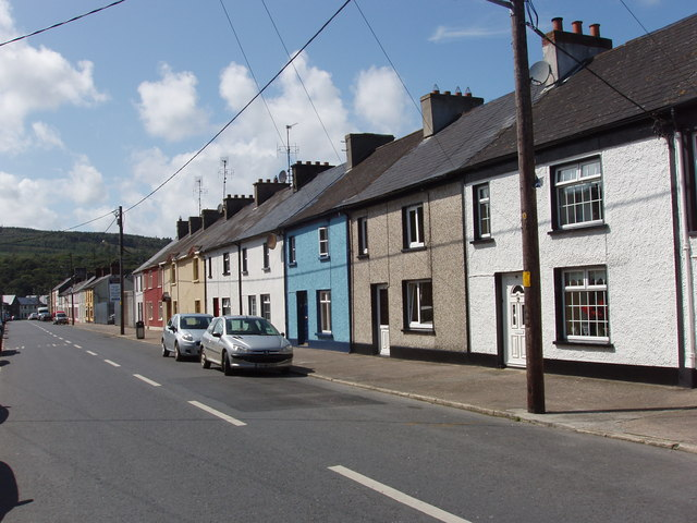 Main street of Portlaw, near to Port Lach, Clodiagh Bridge and Knockane, Waterford, Ireland. A terrace of houses with their front doors straight onto the street. There are bars and shops also in this street.